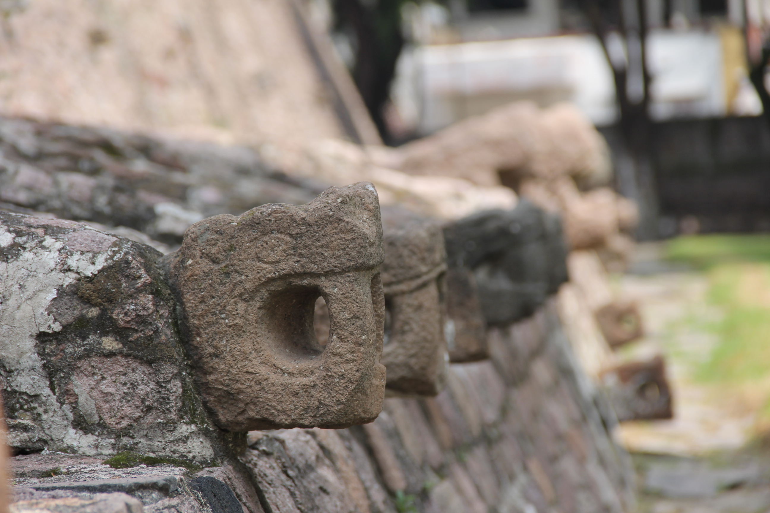 Museum Aztec Mexico Tlalnepantla Prehispanic Archaeology Pyramid Tenayuca Snake Serpent Wall